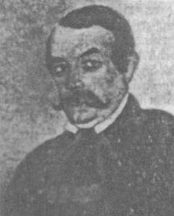 Johann Heuffel, hungarian botanist